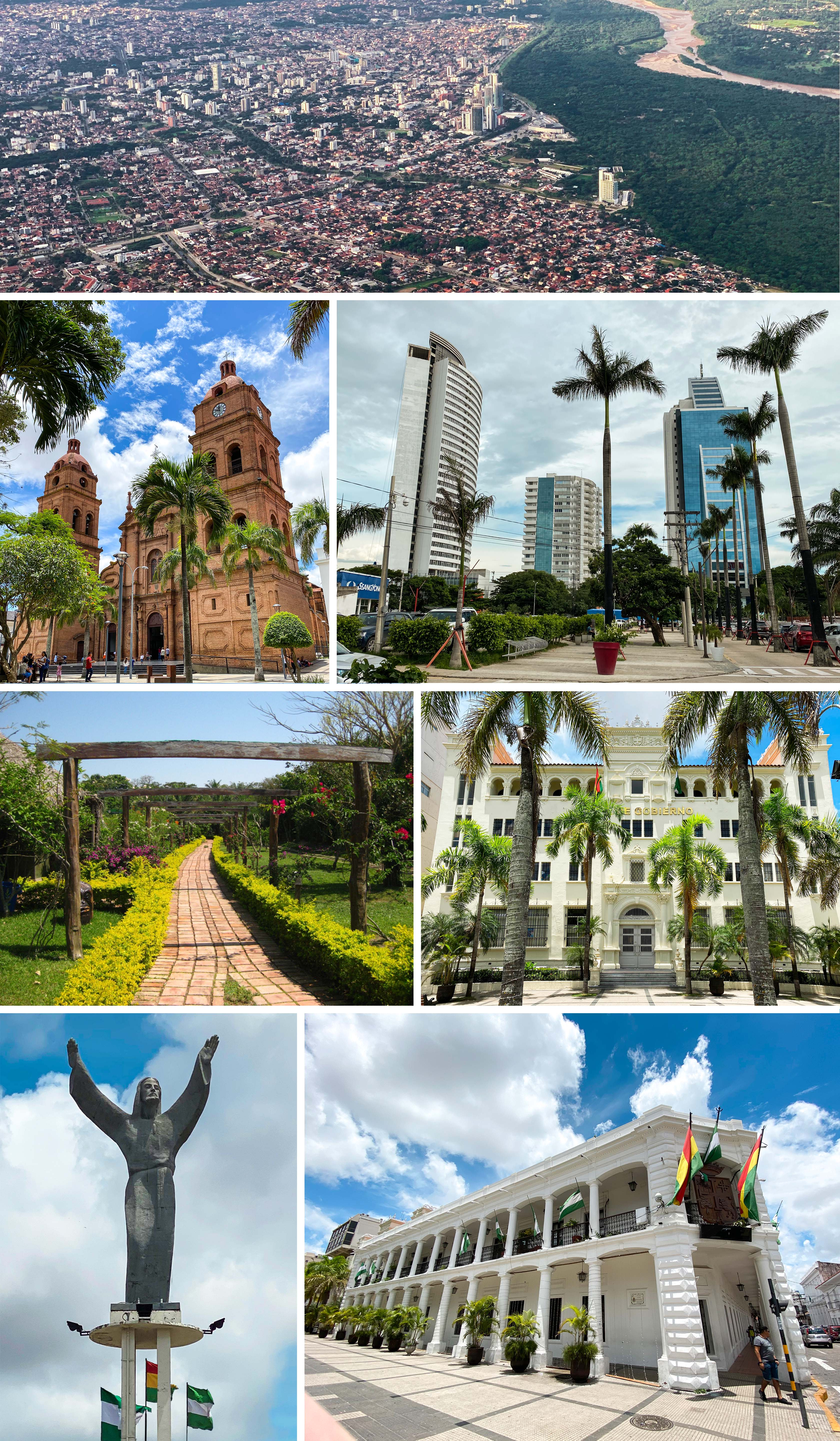 A collection of photos that describe Over-the-Rhine in Cincinnati, Ohio. (Note: all photos are available at Wikimedia Commons).